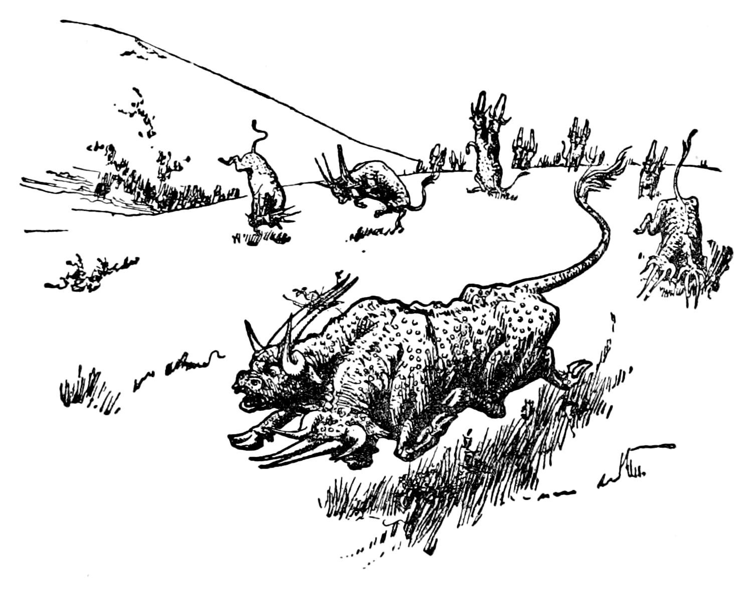 illustration from a book of fairy tales, the tale is "The Red Ettin"